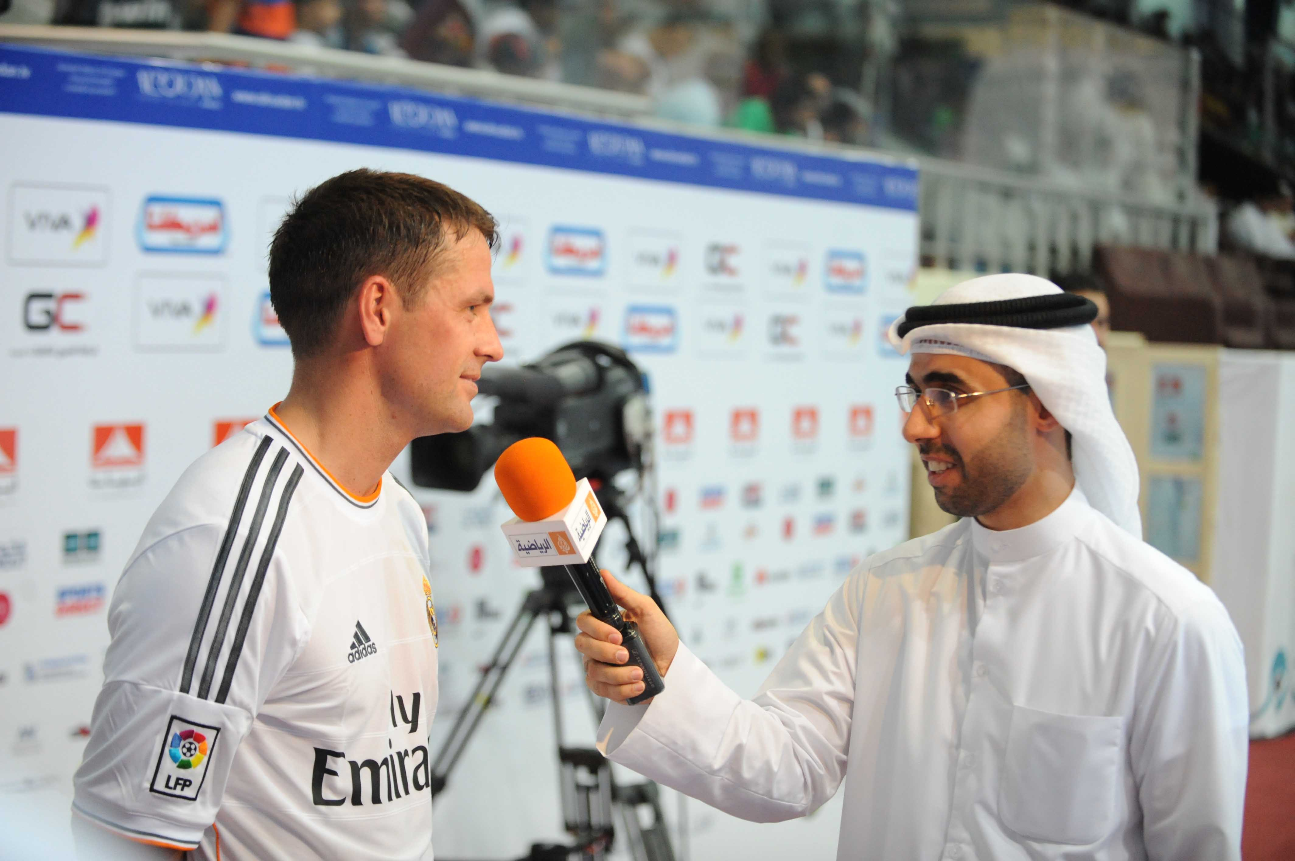 علي احمد مراسل الجزيرة الرياضية يجري لقاء مع مايكل اوين